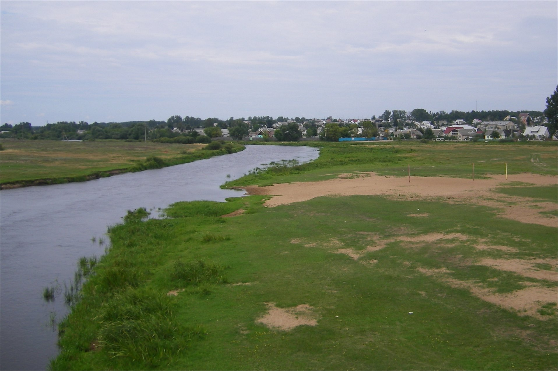 Neman river in Stowbtsy (Стóўбцы; Столбцы; Stoŭptsy). Photo taken 2006-08-09 by Szeder László.